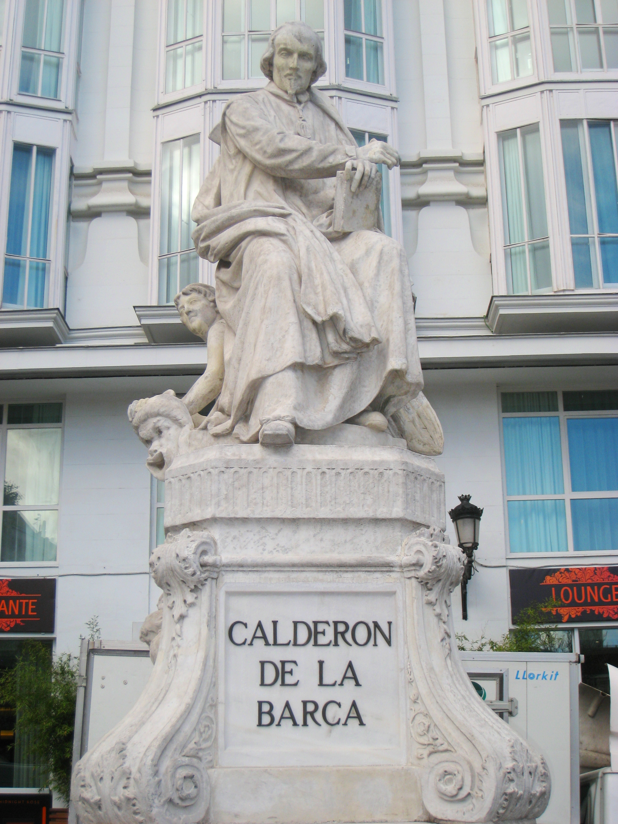 Monument to Pedro Calderón de la Barca, Plaza de Santa Ana, Madrid, Spain. I took this photograph.